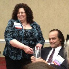 Woodhull Executive Director Ricci Levy presenting the Vicki Sexual Freedom Award to Jeffrey Montgomery on Saturday, 9/22/12 during Woodhull's Sexual Freedom Summit in Washington, DC.